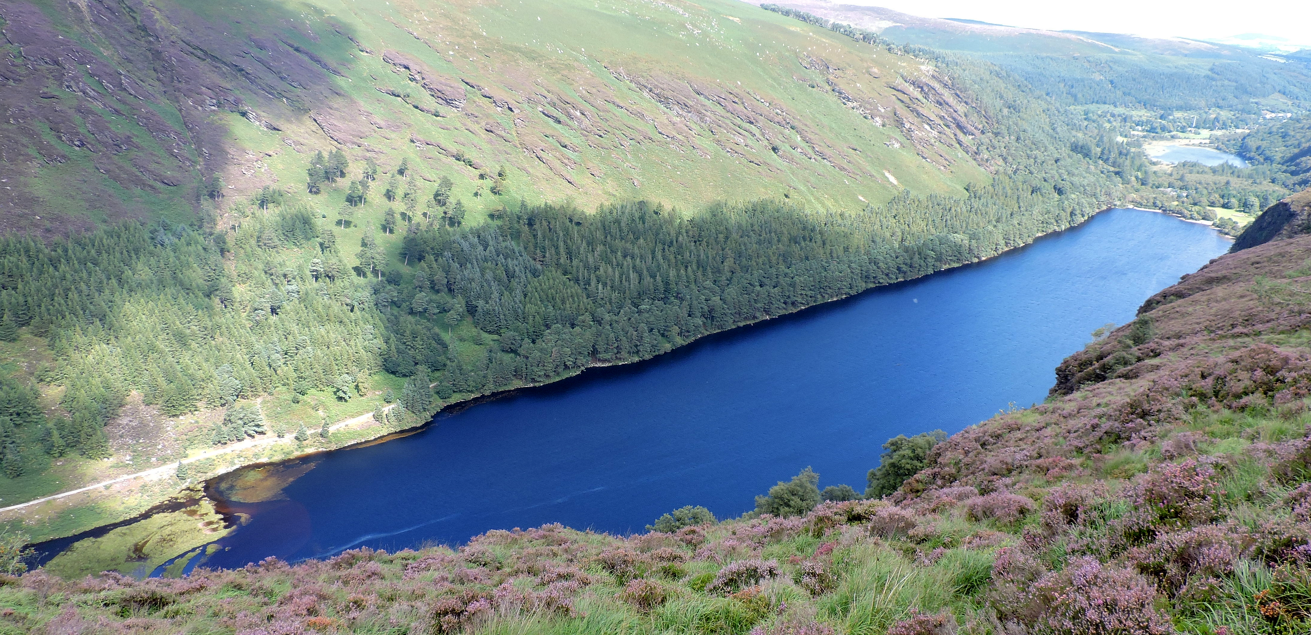 Glendalough Upper Lake (County Wicklow, Ireland) from South-West